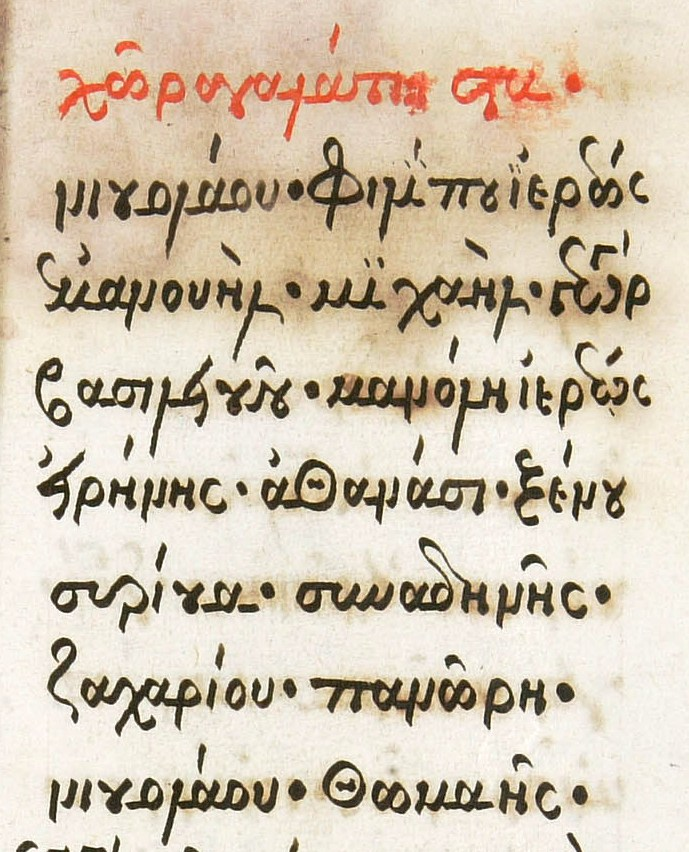 Ottoman Cencus (Part) of the town of Galatista (Γαλάτιστα), Greece. Family names menbers.